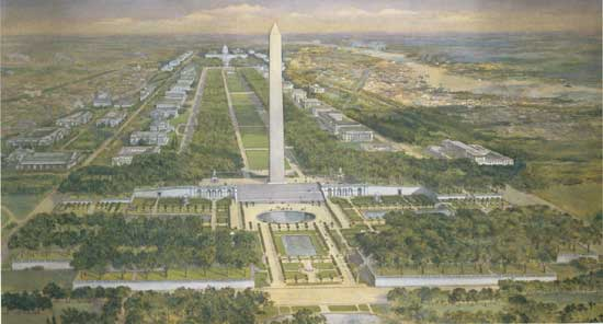 Watercolor rendering of the proposed Washington Monument Gardens. The perspective is looking to the east toward the United States Capitol. Watercolor by Charles Graham for the United States Senate Park Commission in 1902.